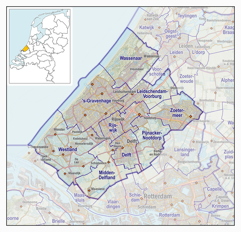 Map of the Dutch Safety Region, with an impression of the terrain and the municipal borders as of 1-1-2017.